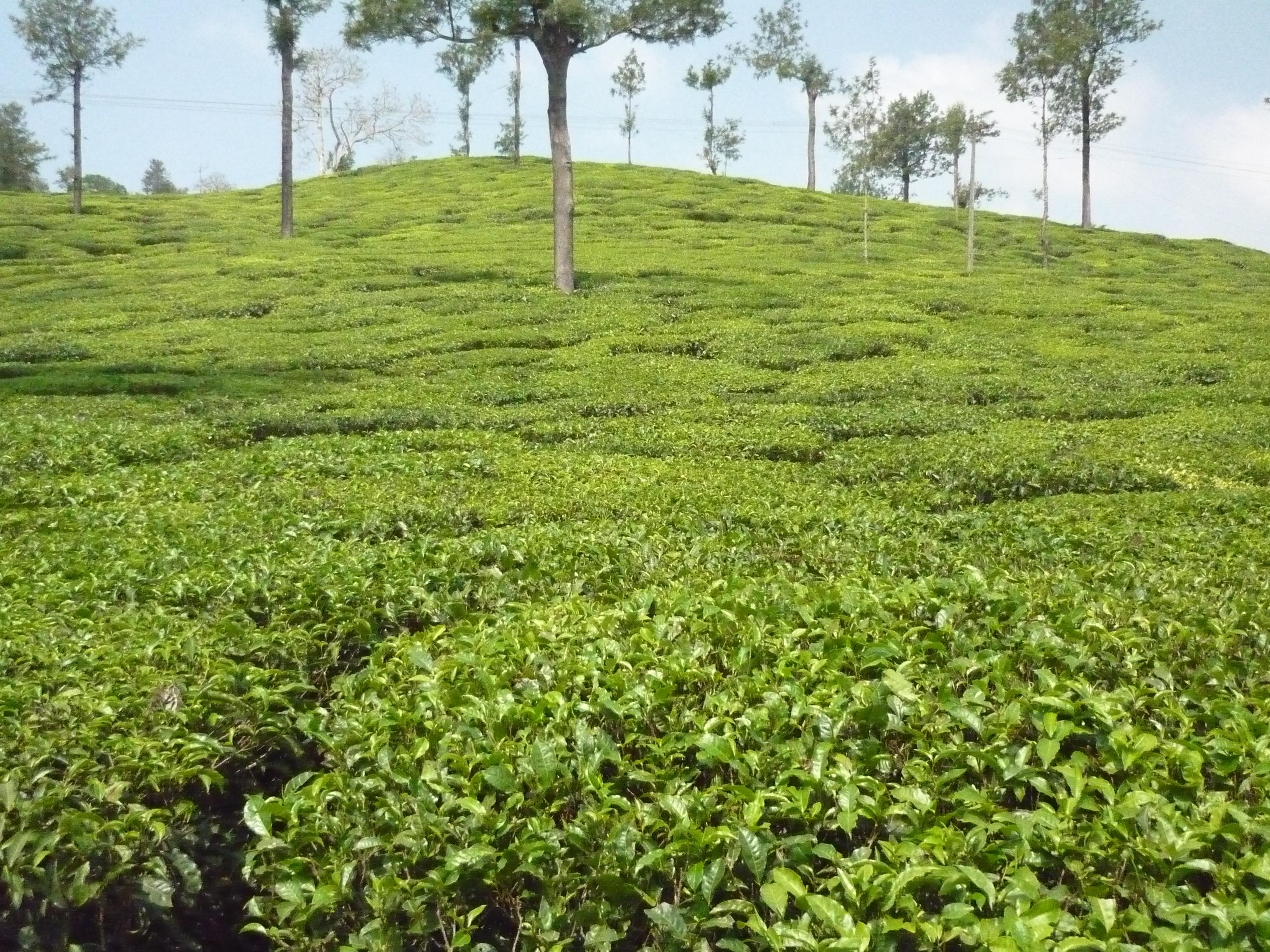 Image